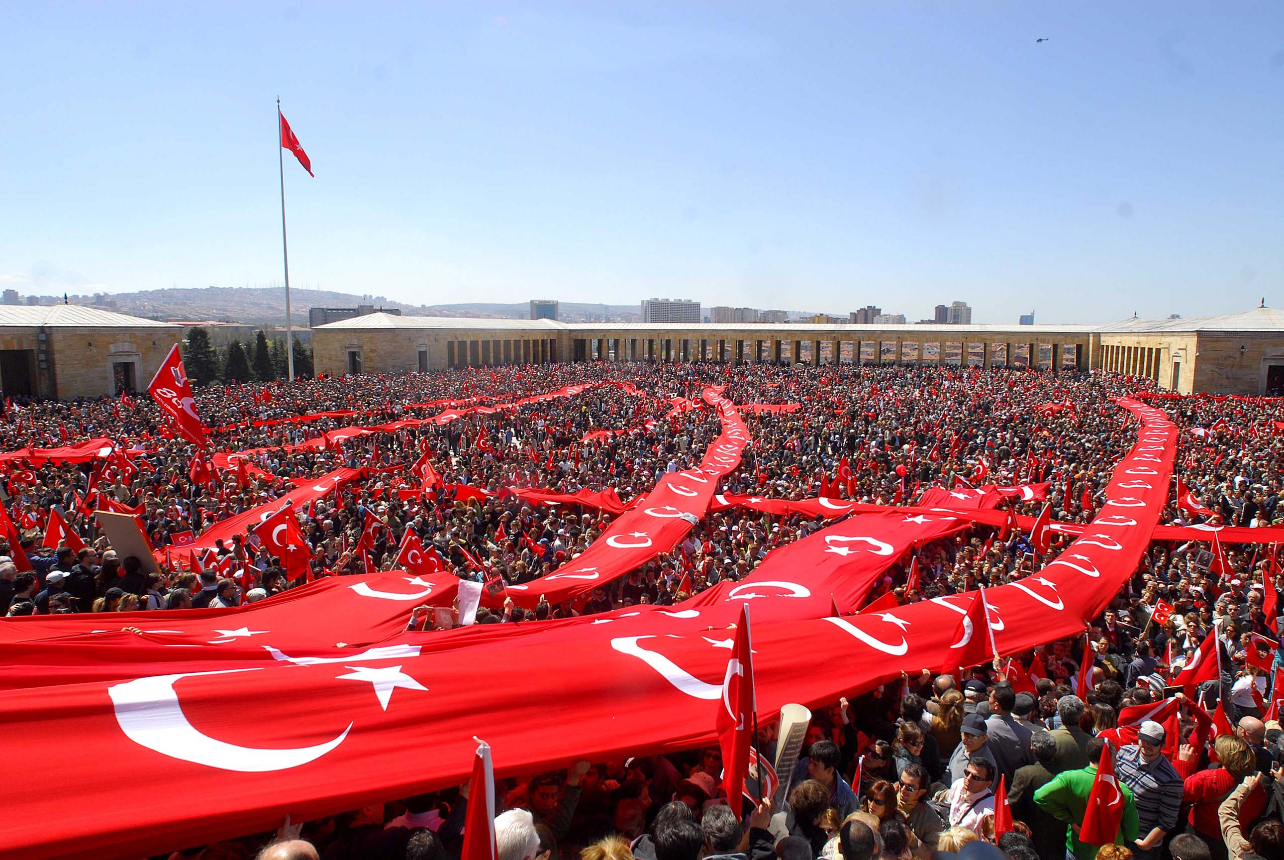 Protect Your Republic Protest that took place at Anıtkabir on April 14, 2007